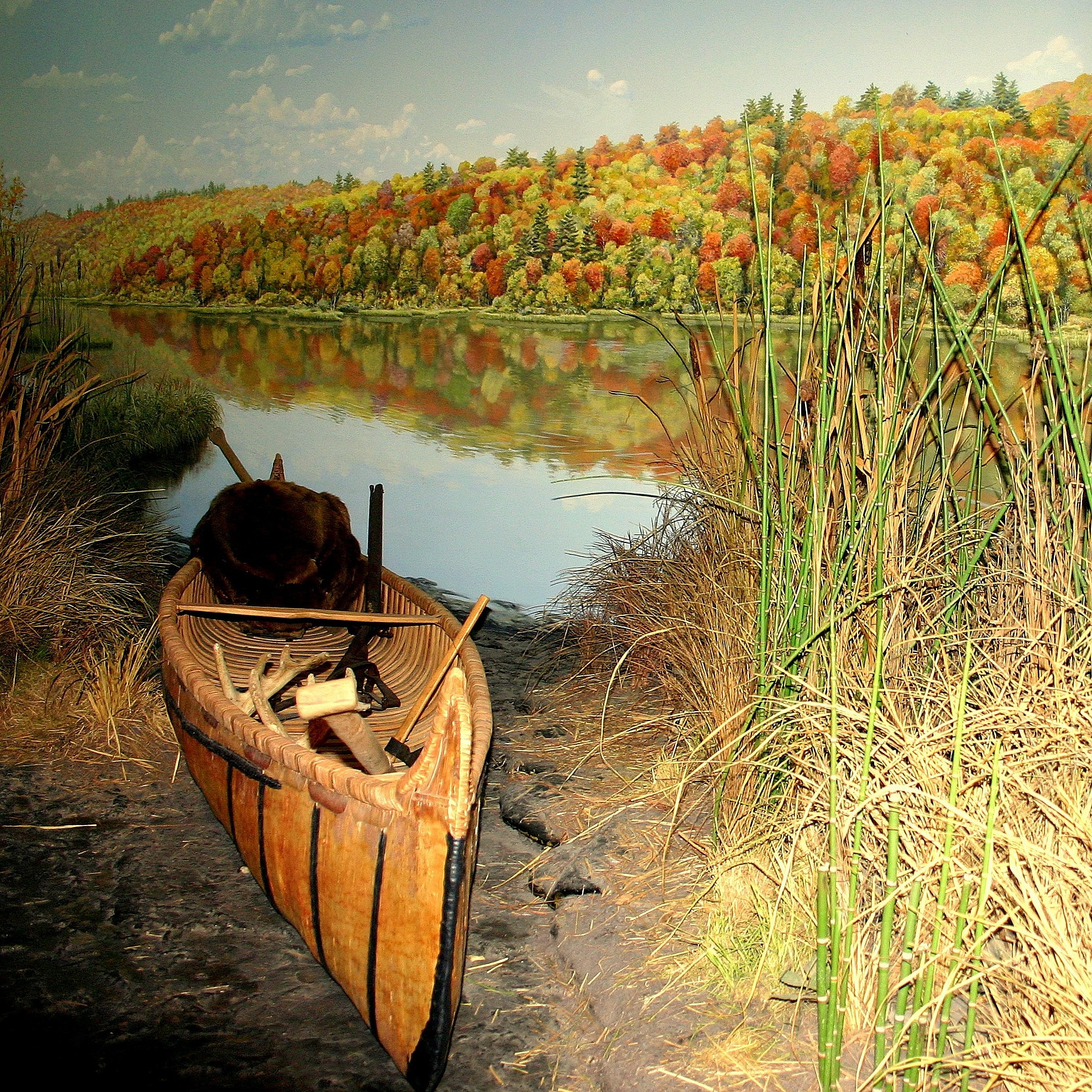 canoe of a voyageur